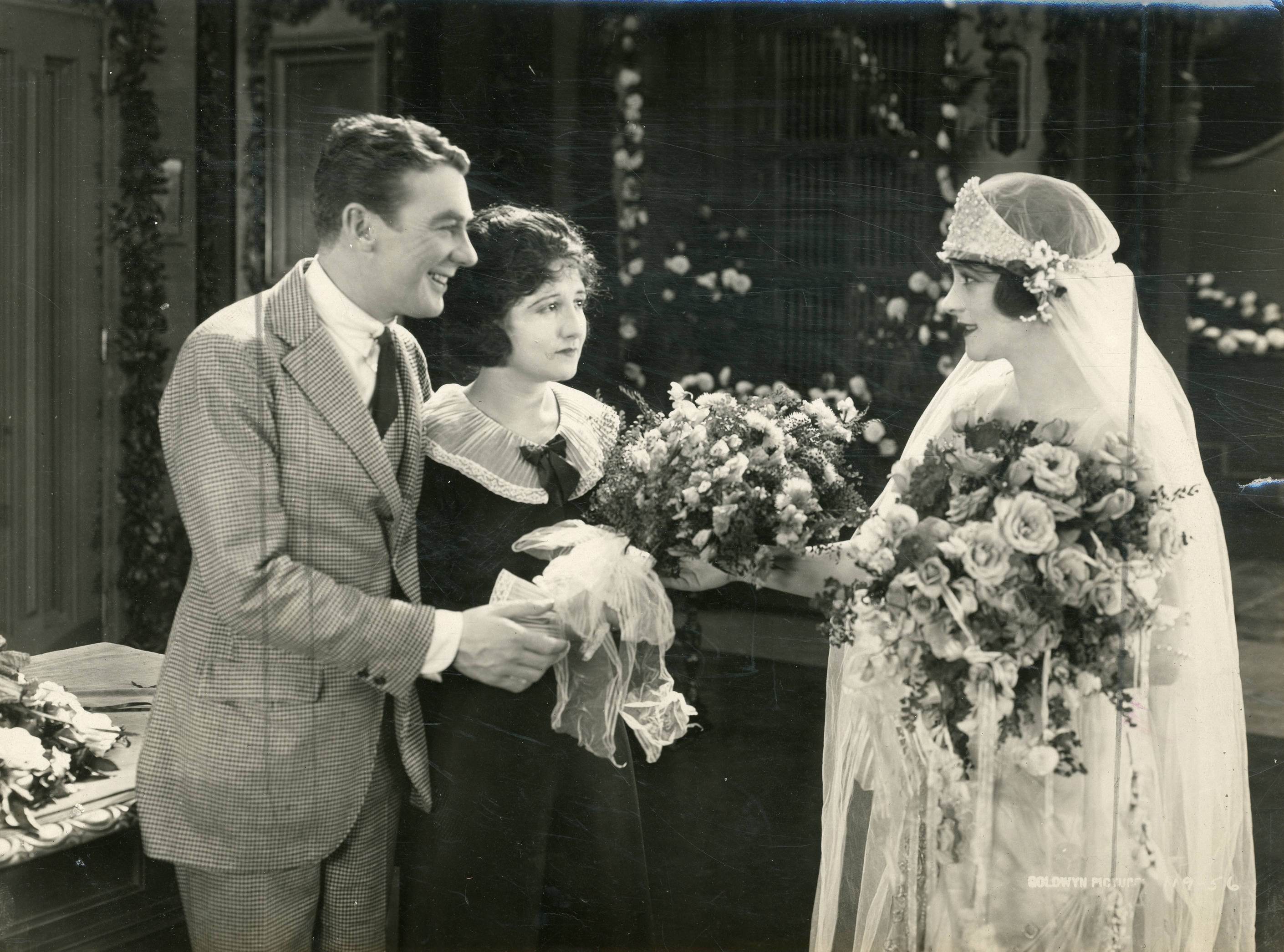 A scene from the American comedy romance film Stop Thief (1920), which played at the Clemmer Theater, Seattle. Includes Tom Moore and Irene Rich (right). Date stamped Oct. 6, 1920. Subjects: motion pictures, actors, actresses